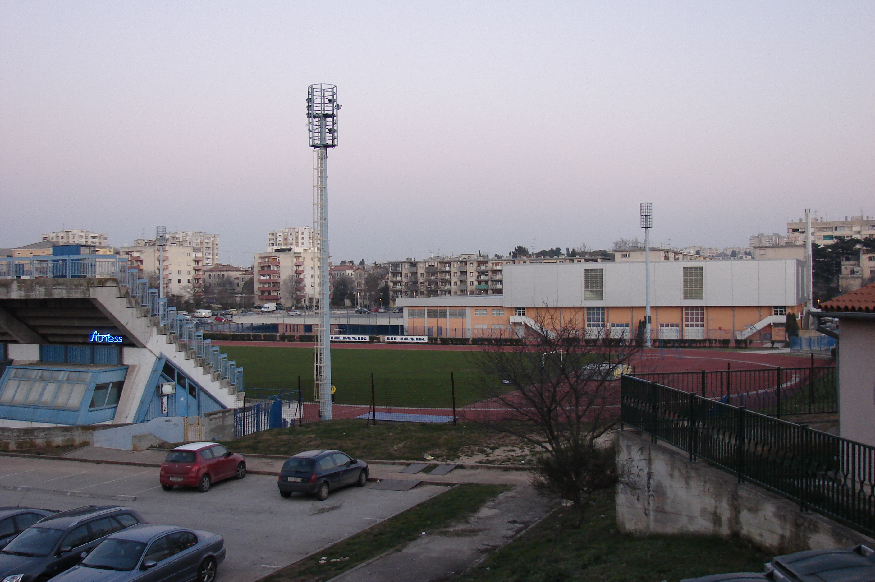 SRC Uljanik and Mate Parlov Sports Hall in Veruda, Pula.